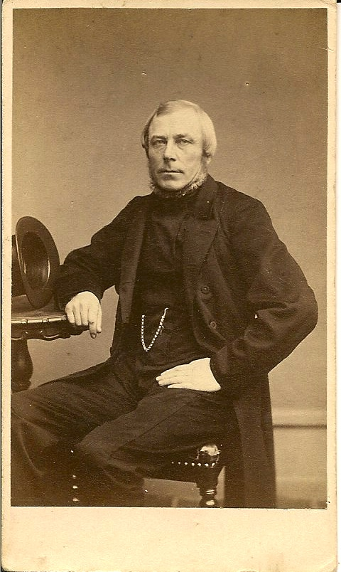 Swedish politician from late nineteenth century